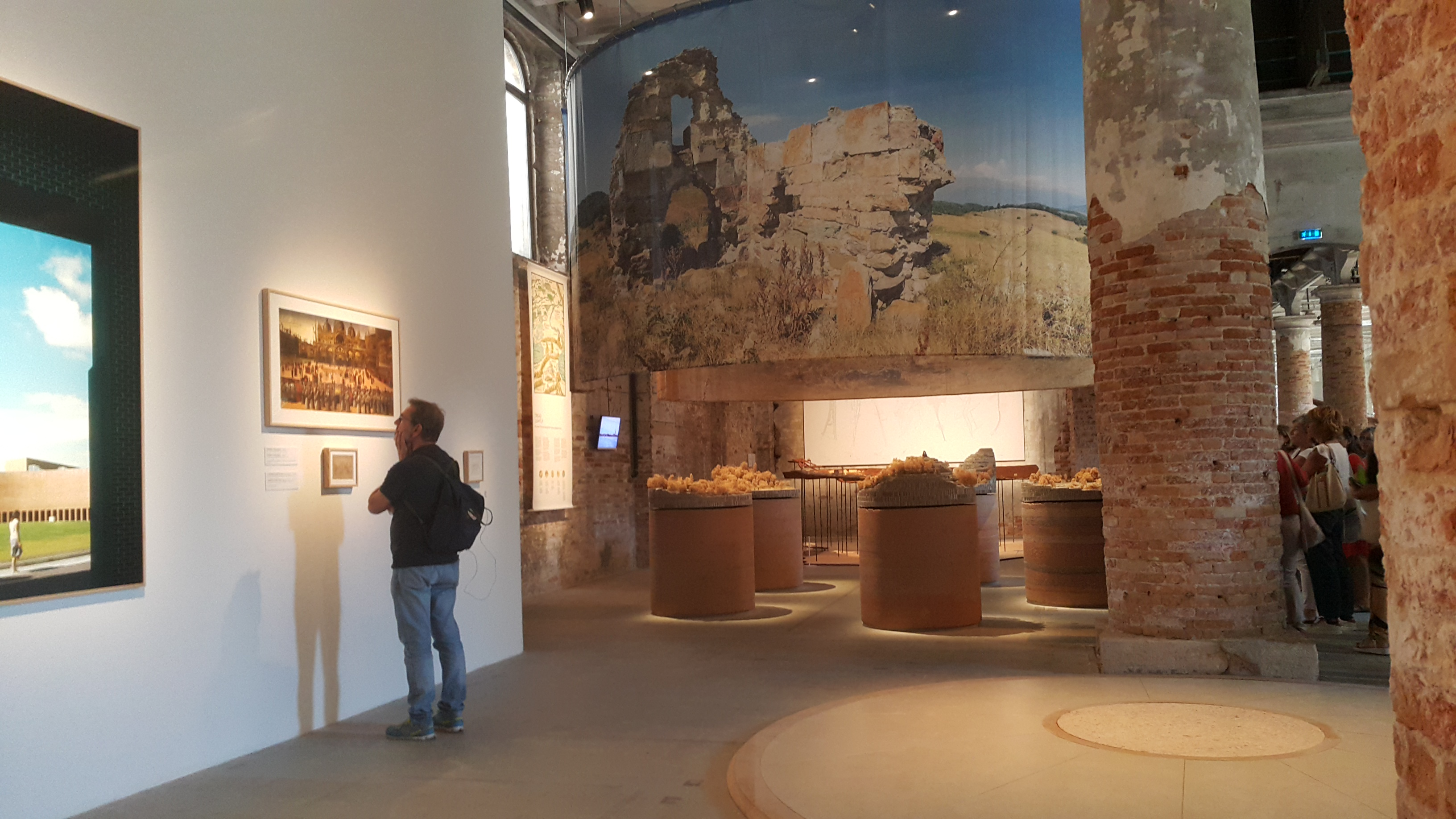 16th Venice Architecture Biennale Freespace main exhibition